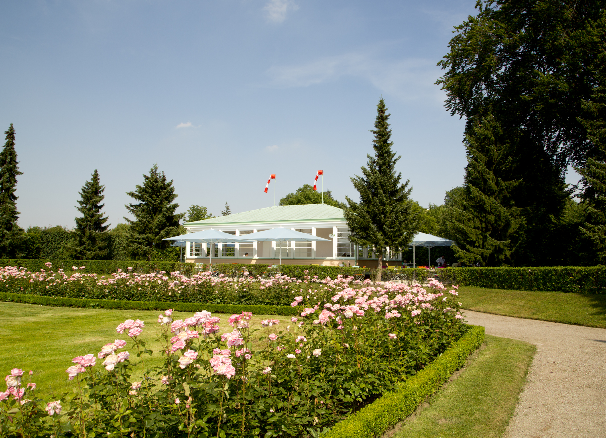 The café/restaurant Landtmann's Jausen Station in the Schönbrunn gardens in Vienna, Austria